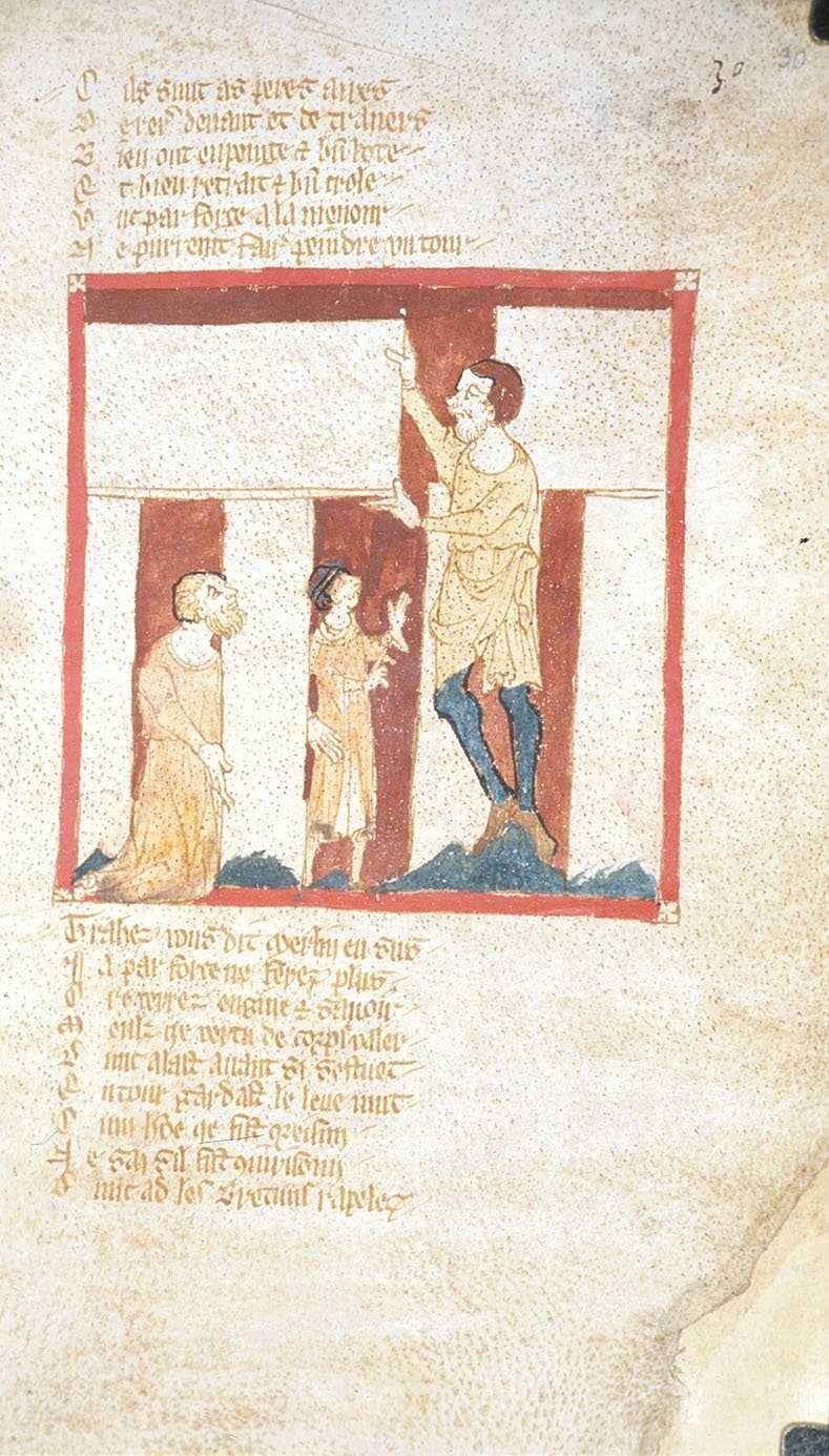 Fol. 30r. Depicted person: Merlin. This illustration shows the construction of Stonehenge by a giant with the assistance of Merlin. It is the oldest known illustration of Stonehenge.